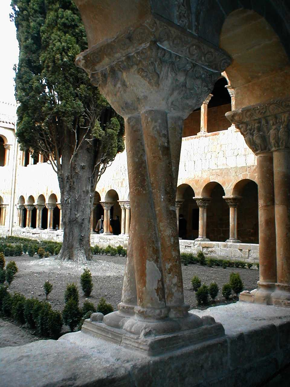 Picture taken by Mark Somoza in the monastery of Santo Domingo de Silos in Burgos, Spain.